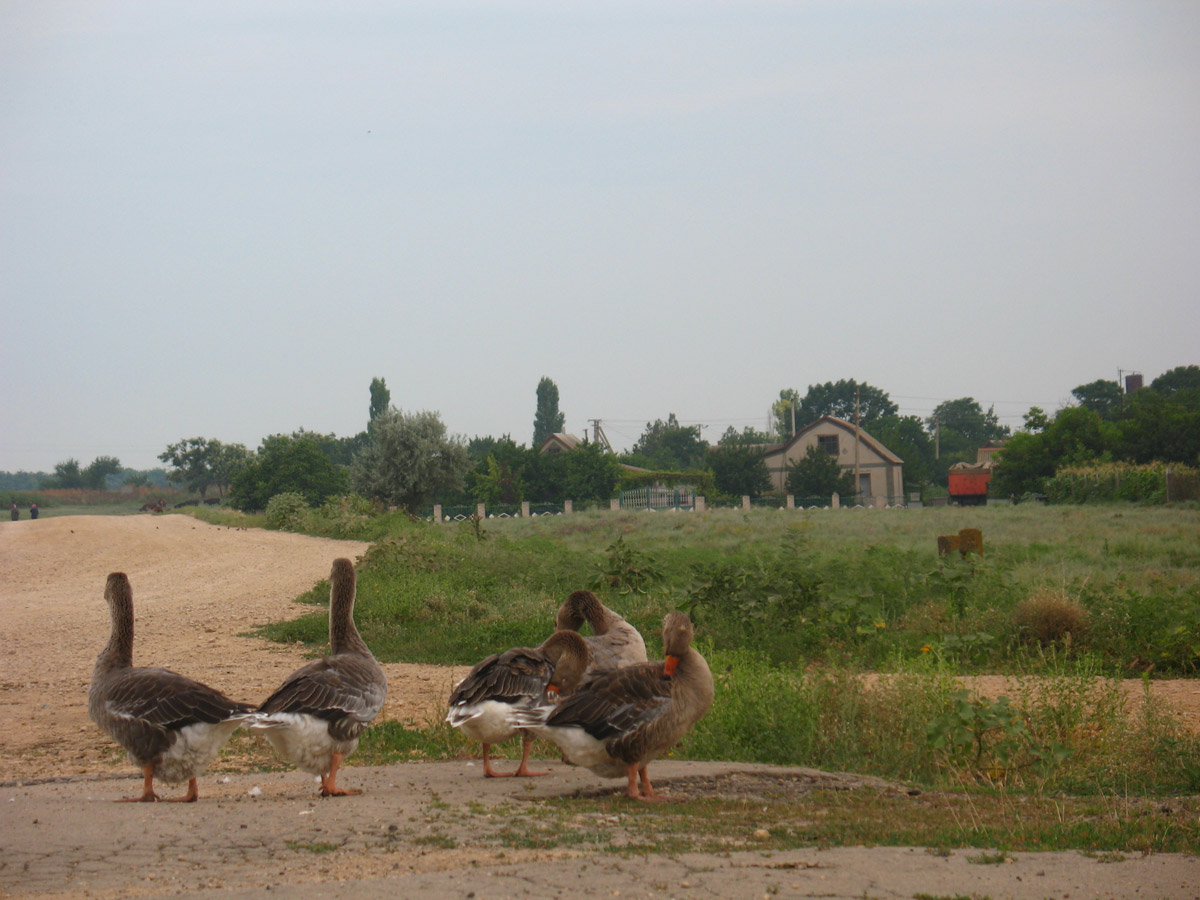 View of Novoselivka, Berezan Raion, Mykolaiv Oblast, Ukraine